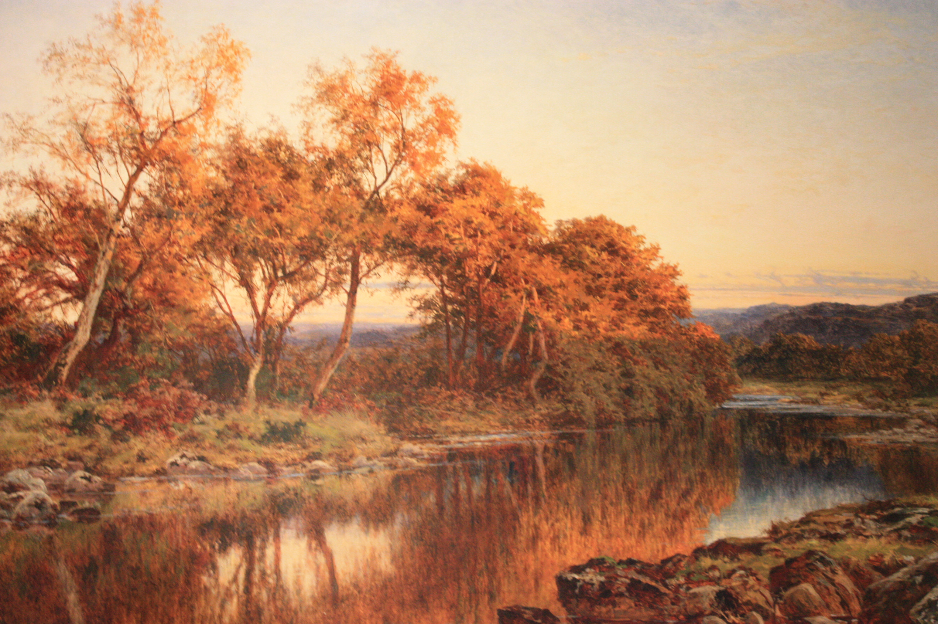 A Golden Eve by Benjamin Leader 1875